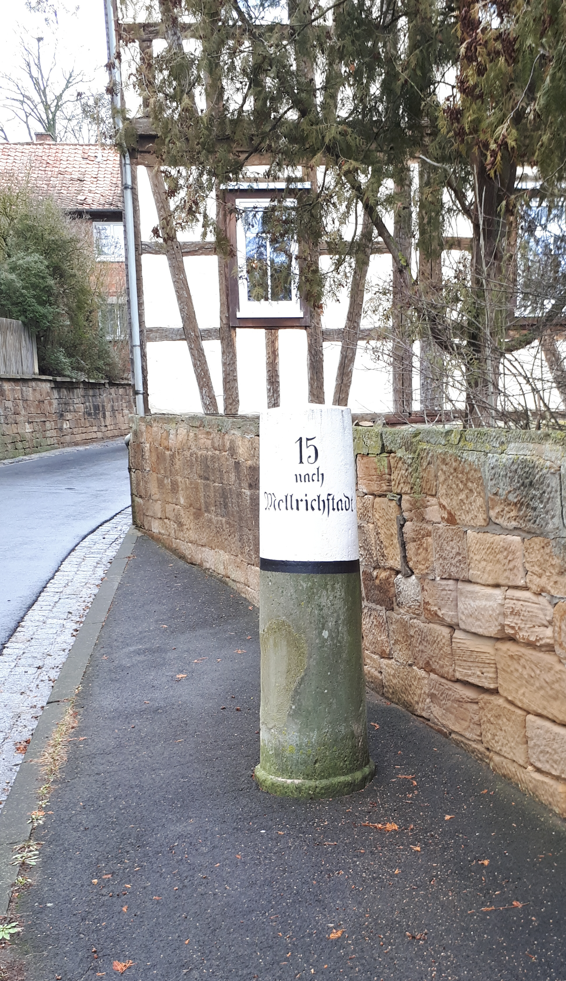 Historic mile stone in Höchheim, Bavaria